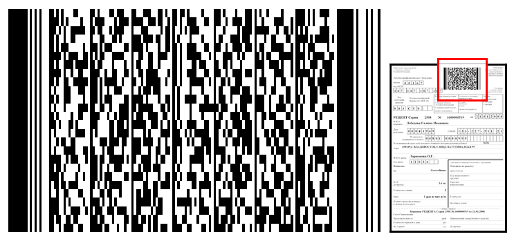 2D bar code on a prescription